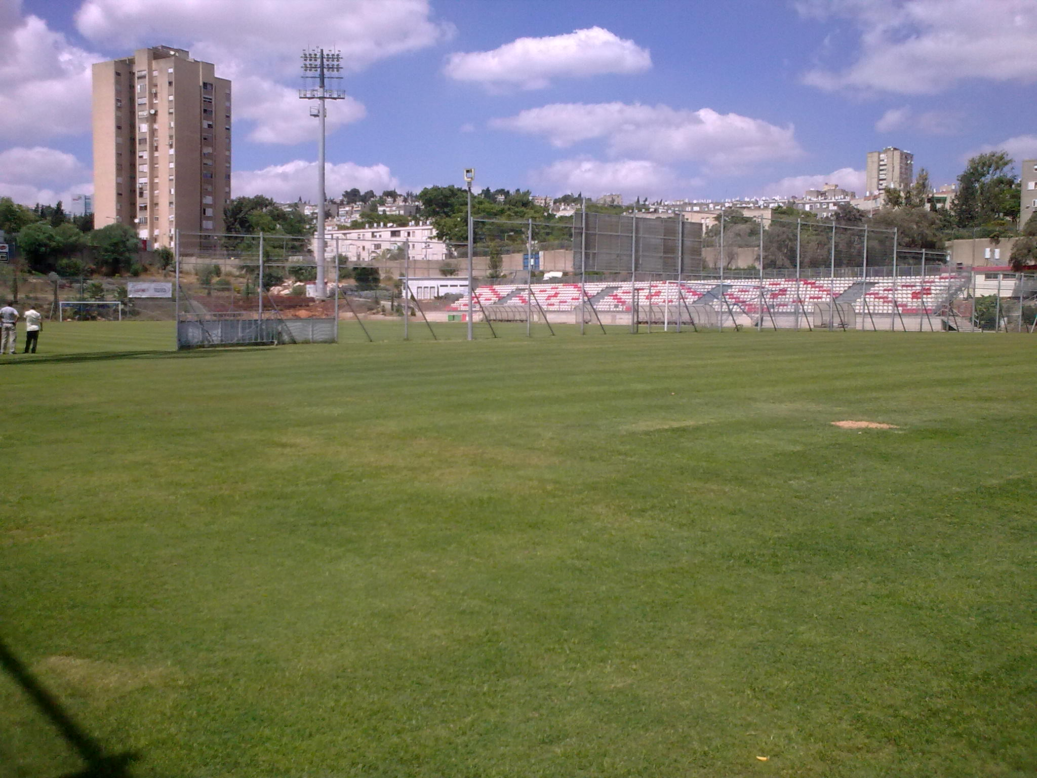 Green Stadium, Nazareth Illit